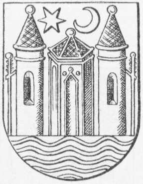 Coat of arms of Svendborg, a chartered town in Denmark. Illustration from the article Om danske By- og Herredsvaaben written by Anders Thiset and published in Tidsskrift for Kunstindustri 1893-1894.